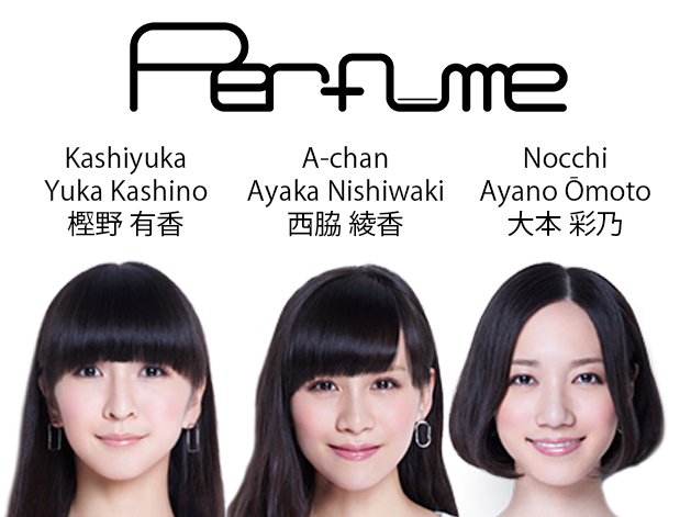 Perfume Members